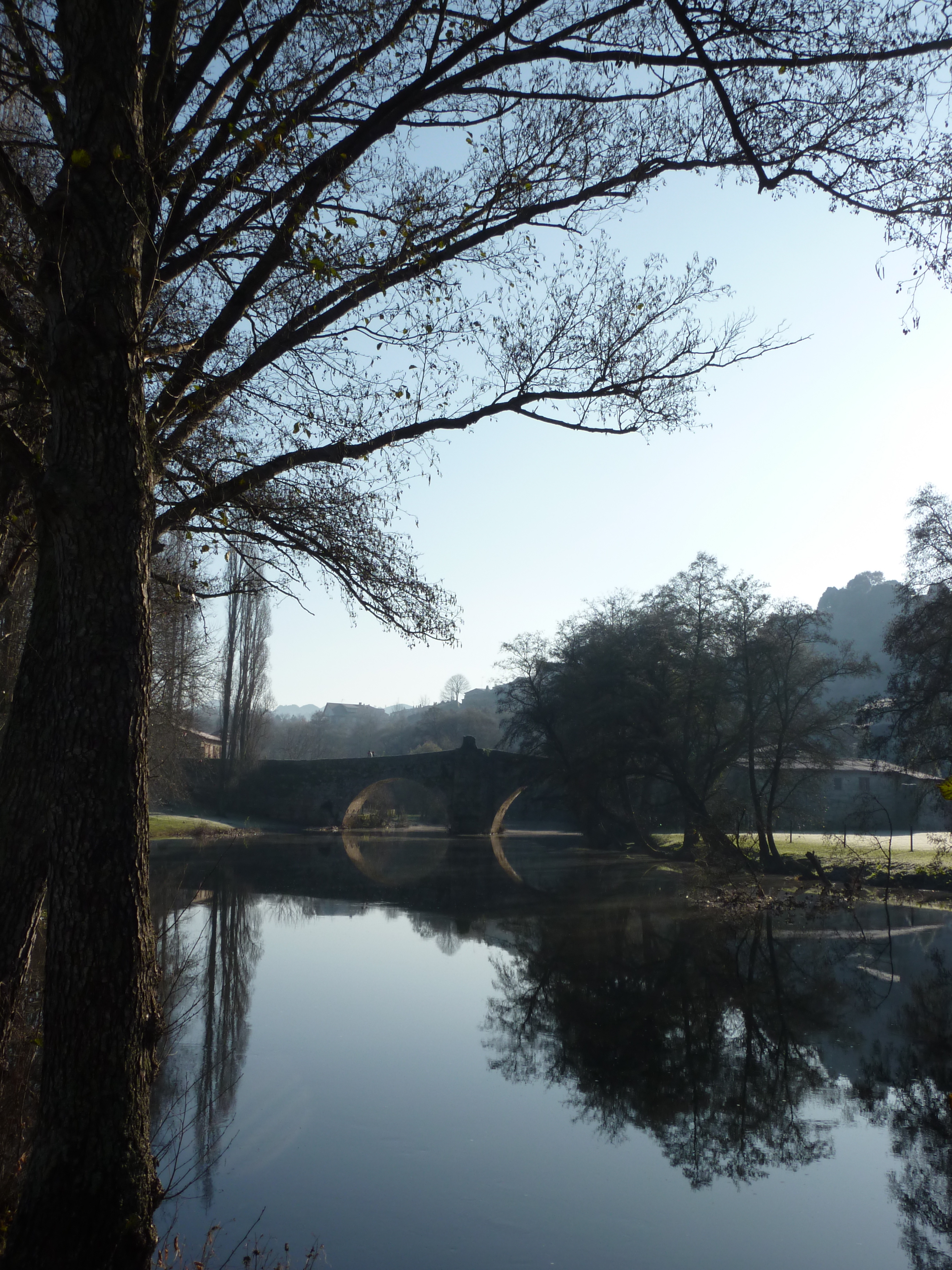 The Arnoia river, affluent of the Minho, passing by Allariz, Galicia